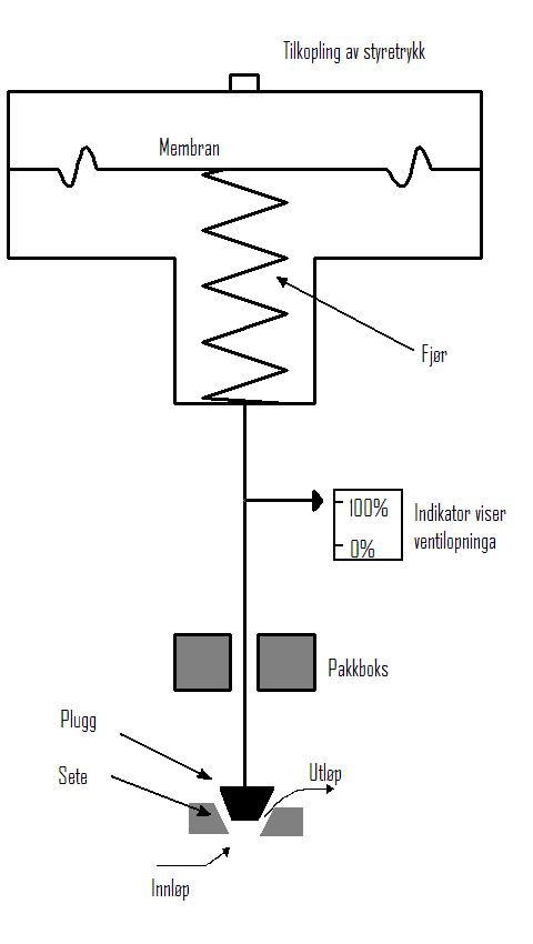 Sketch of a seat/plug-valve with Norwegian notes Norsk (nynorsk): Dette er ei skissa av ein pluggventil med membranmotor.